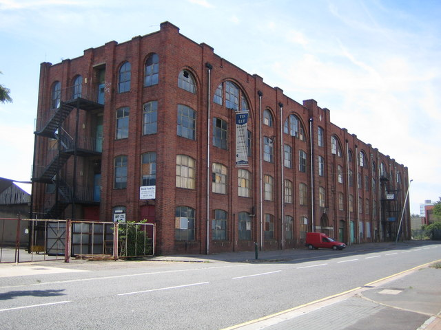 Hayes: Benlow Works, Silverdale Road. Although the advertising flag on the side optimistically offers business units to let, this Edwardian works building (from 1909 according to the plaque above the main entrance) appears to be in a sorry state with many broken and boarded up windows. The leaning lamp post at the right hand end only adds to the general air of dereliction.